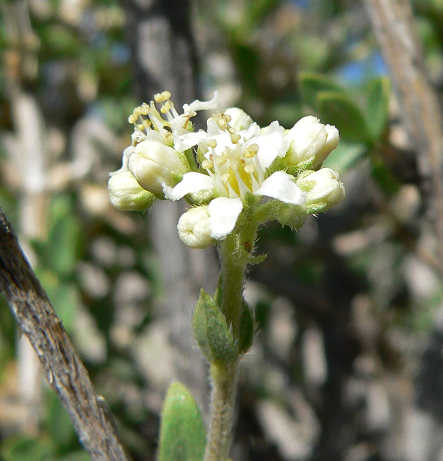 Fendlerella utahensis at summit of Turtlehead Peak, Red Rock Canyon, southern Nevada